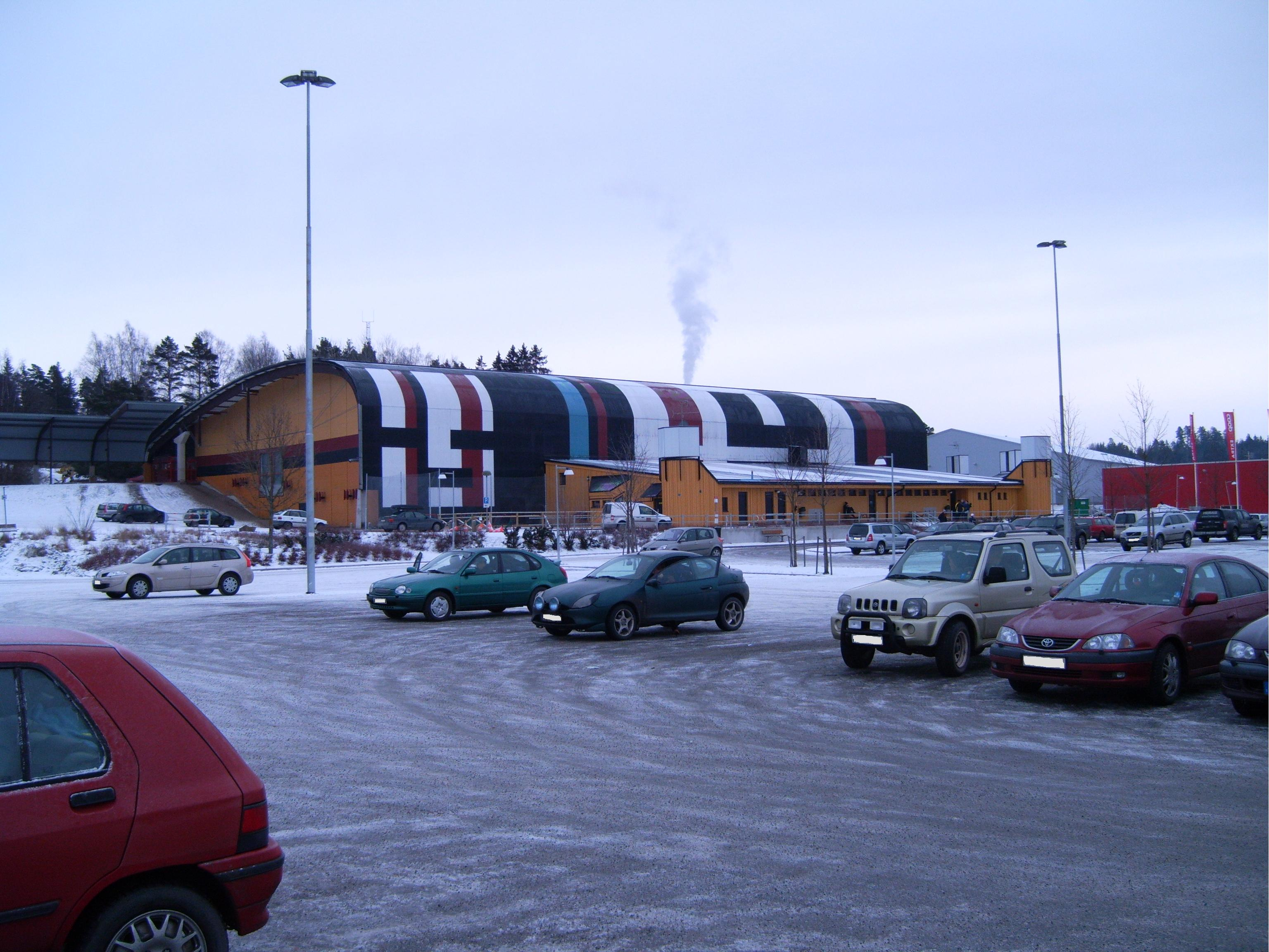 Pinbackshallen, Swedish ice hockey arena in Märsta, Sweden. The signs is removed.